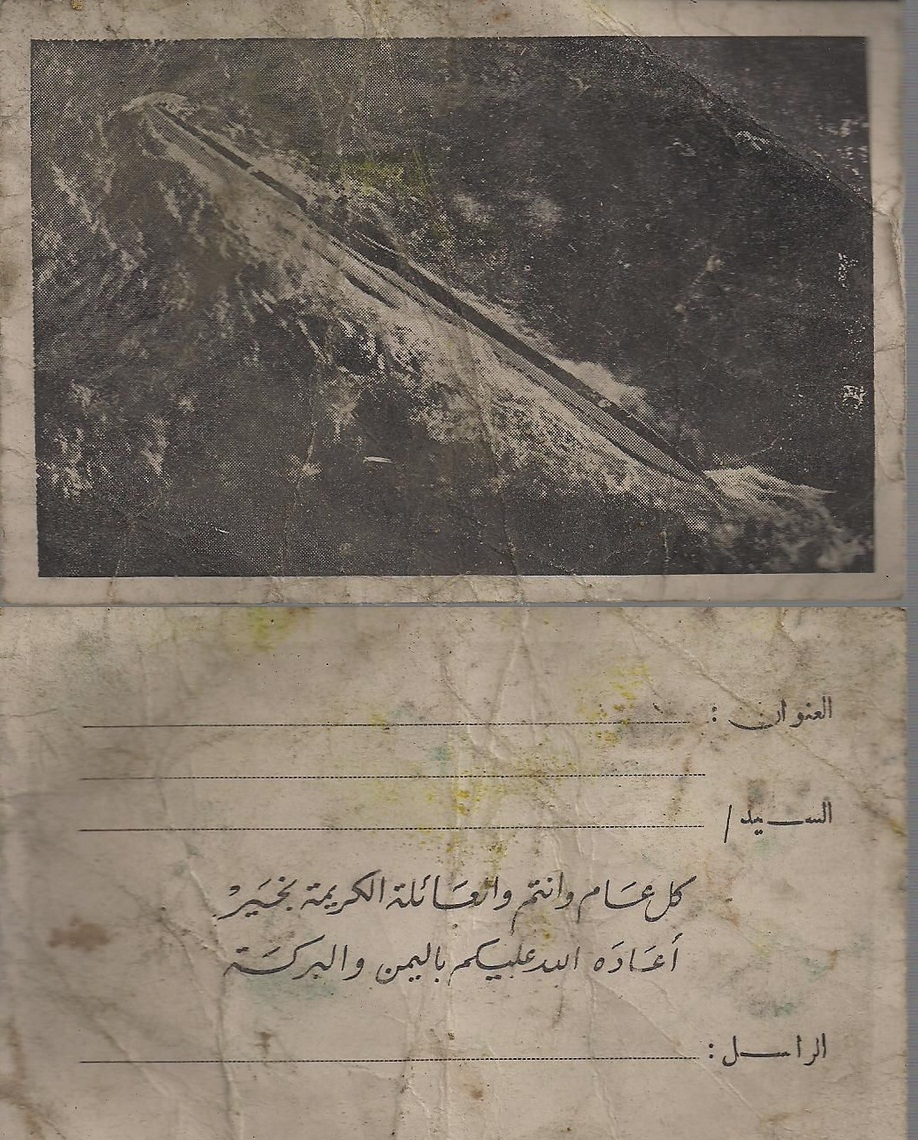 A field post propaganda military submarine post card - egypt army, 1967